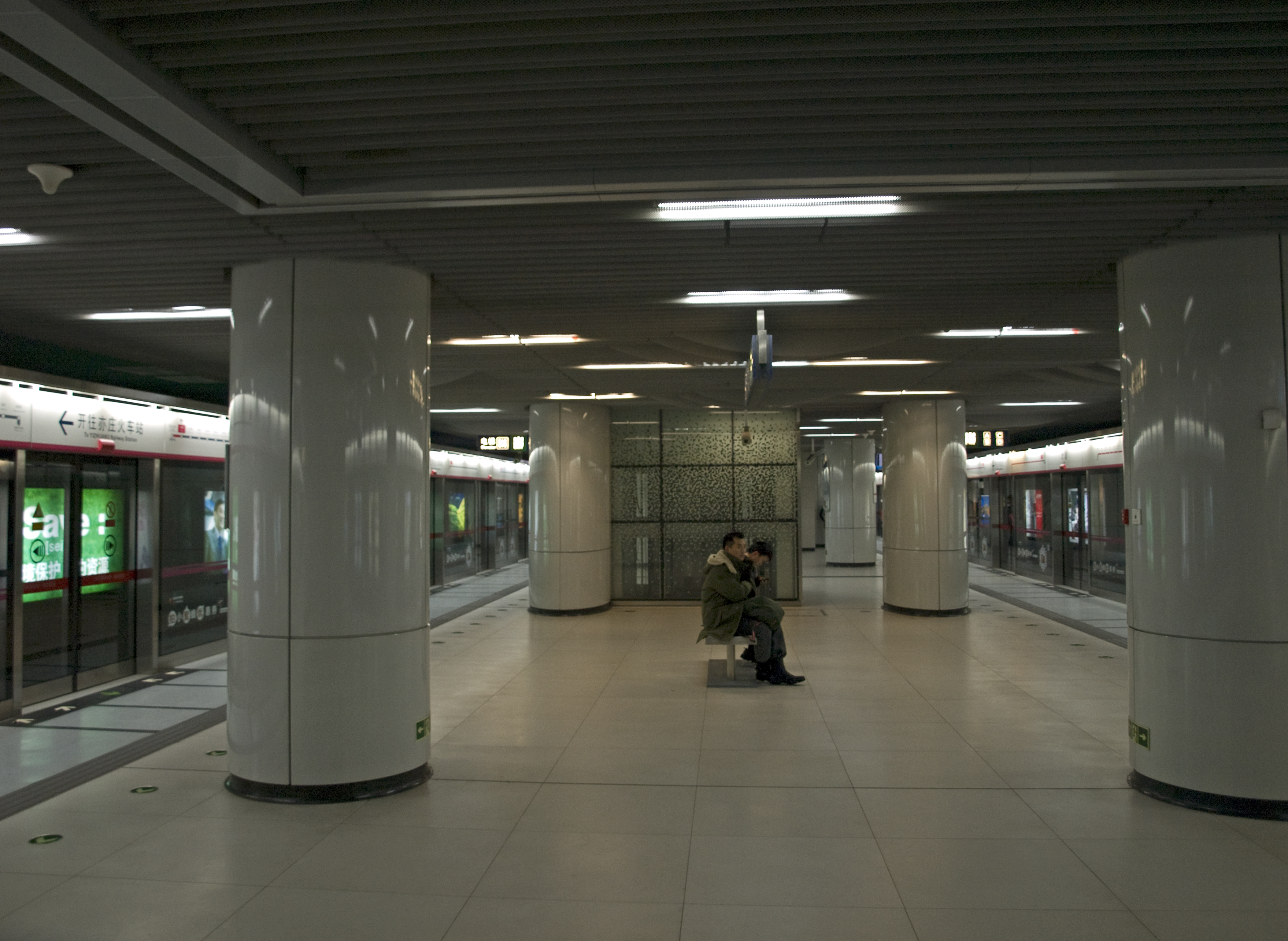 Ciqu station, Beijing Subway